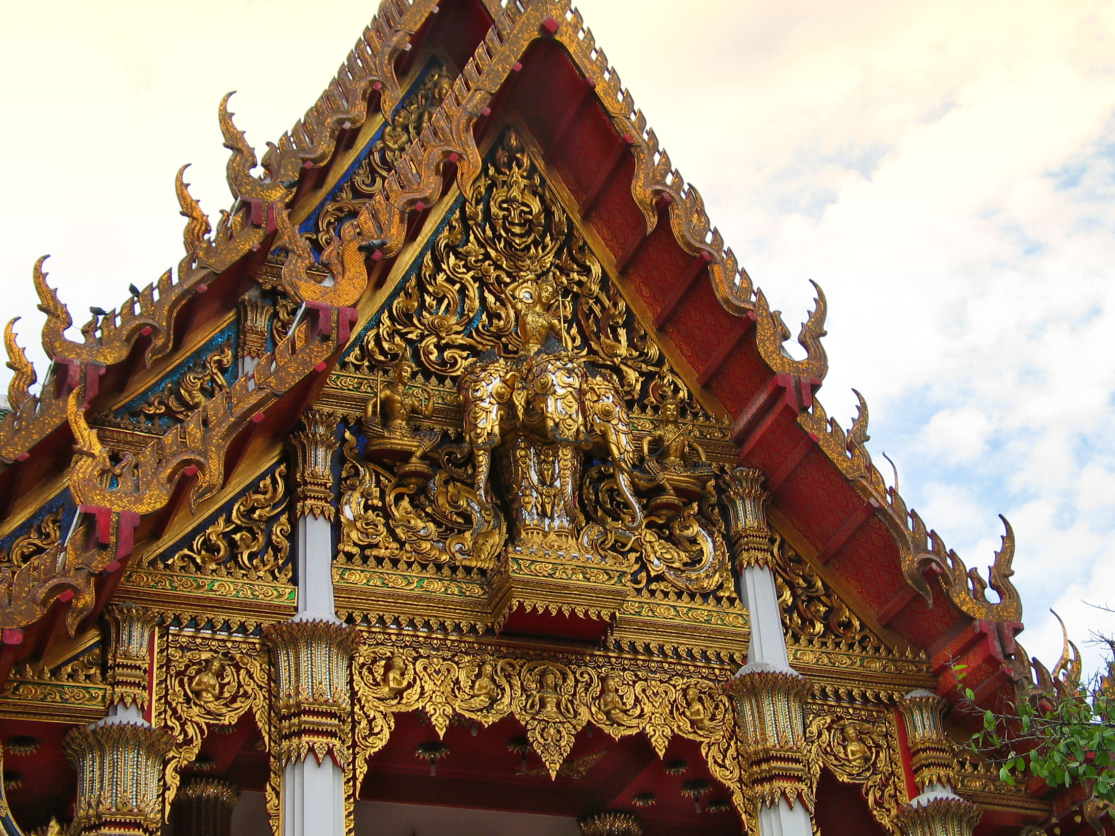 Pediment of viharn at Wat Ratchaburana, Bangkok, Thailand - showing Hindu god Indra on his mount Erawan